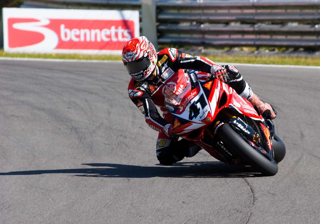 Noriyuki Haga, WSBK Round 10 Brands Hatch 2007